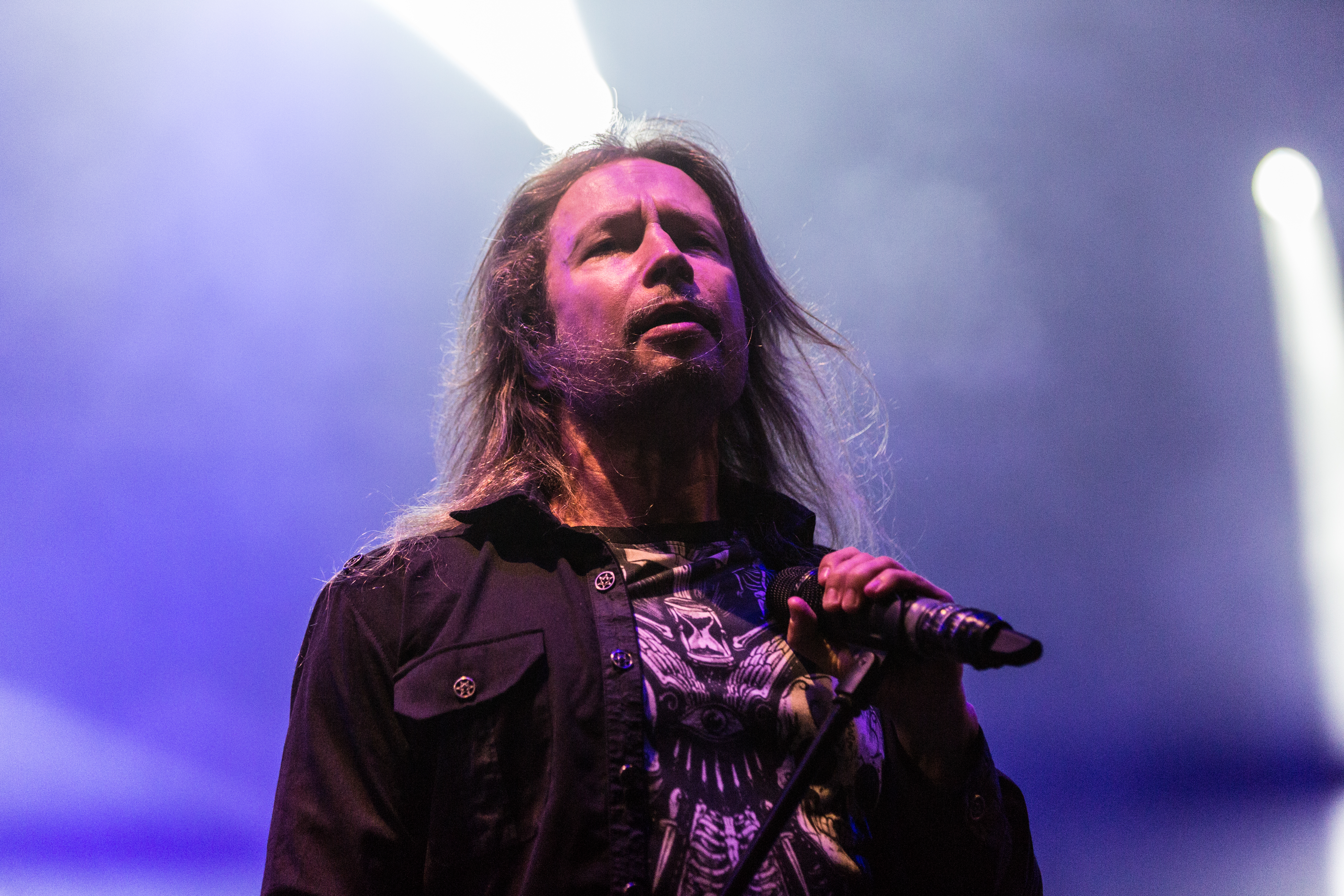 The Finnish power metal band Stratovarius at the Metal Frenzy 2017 in Gardelegen/Germany.